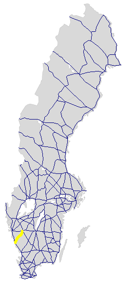 Map of Swedish riksväg (road) 41